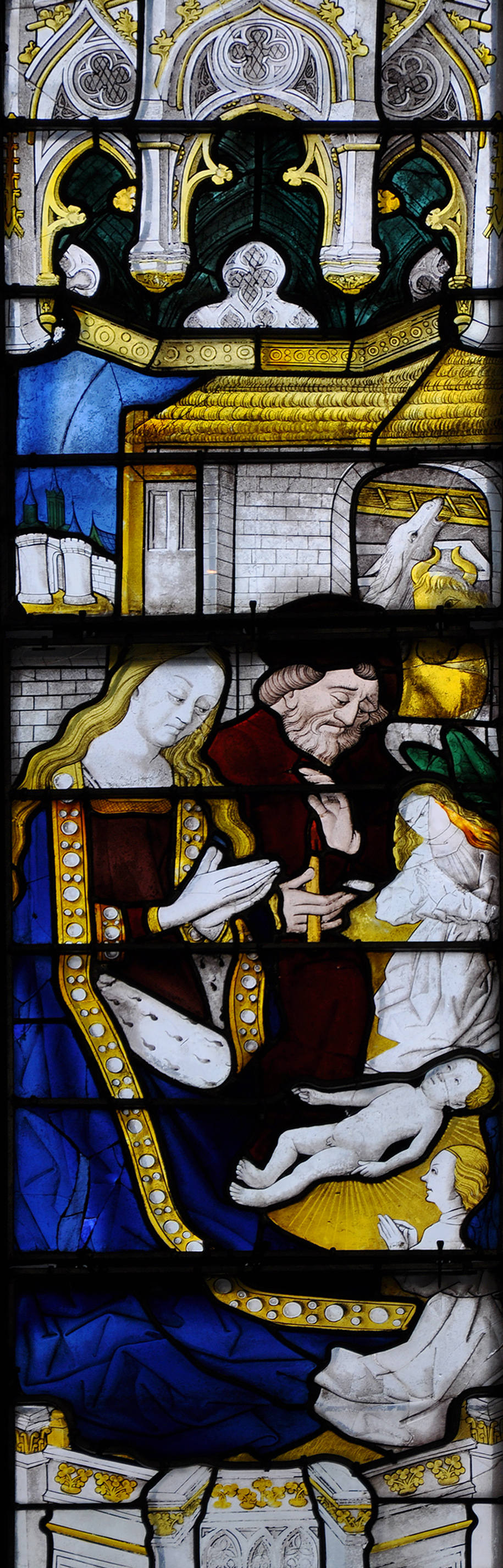 Stained glass window in Evreux Cathedral.